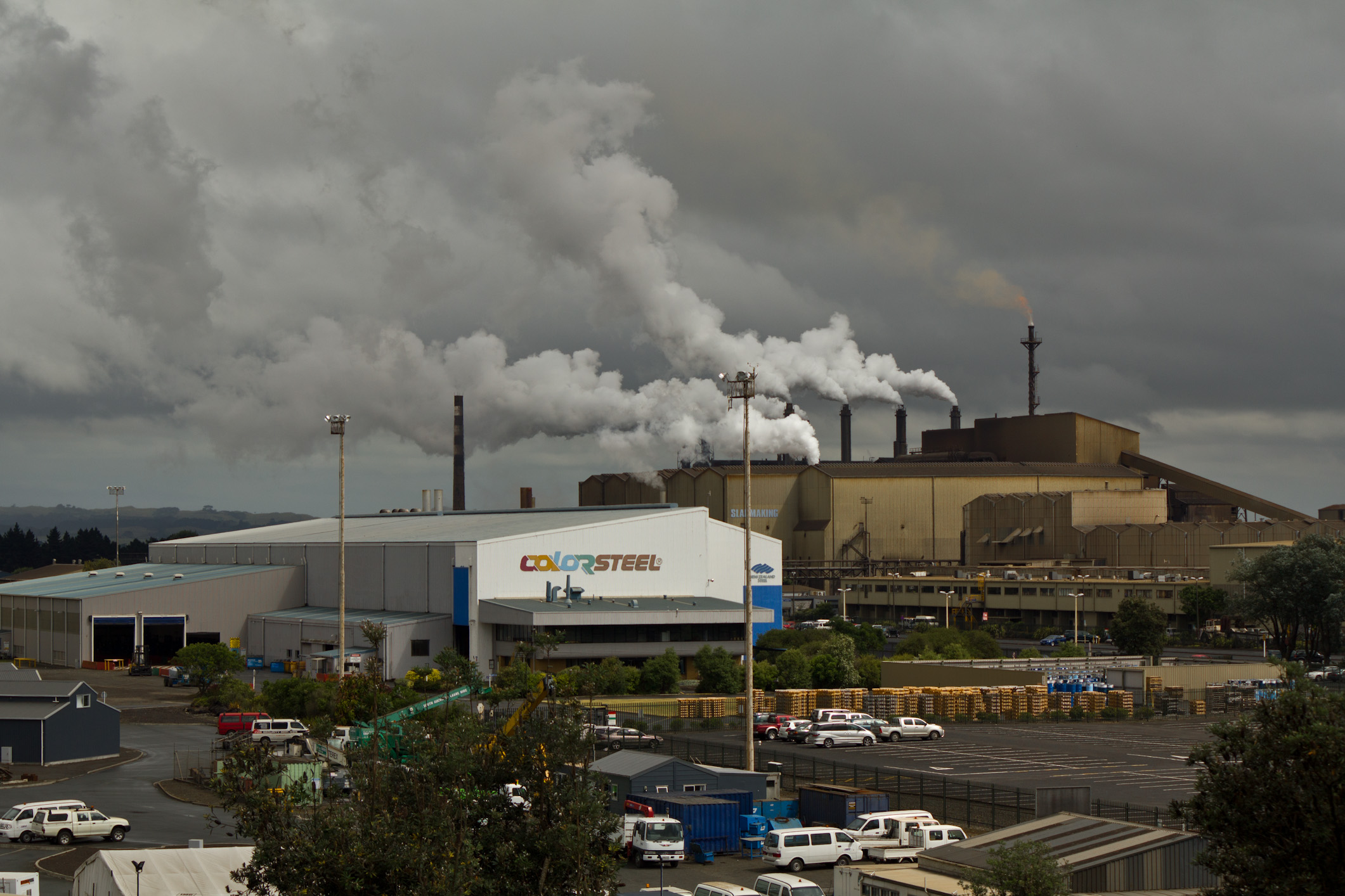 An image of the Glenbrook Steel Mill from the look out in early 2012. The KOBM flarestack and four kilns are emitting visible steam and particulates.